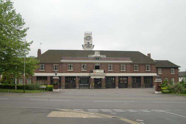 Leicester Central Fire Station Leicester Central Fire Station, Lancaster Place, Leicester